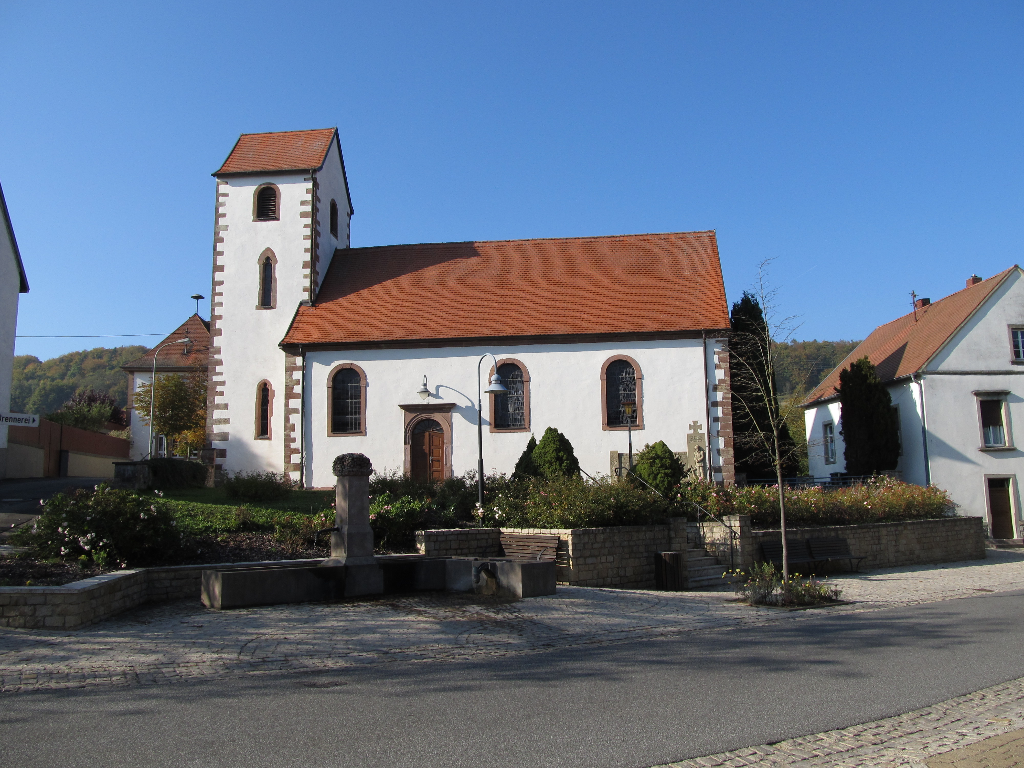 Protestant church in Wolfersheim